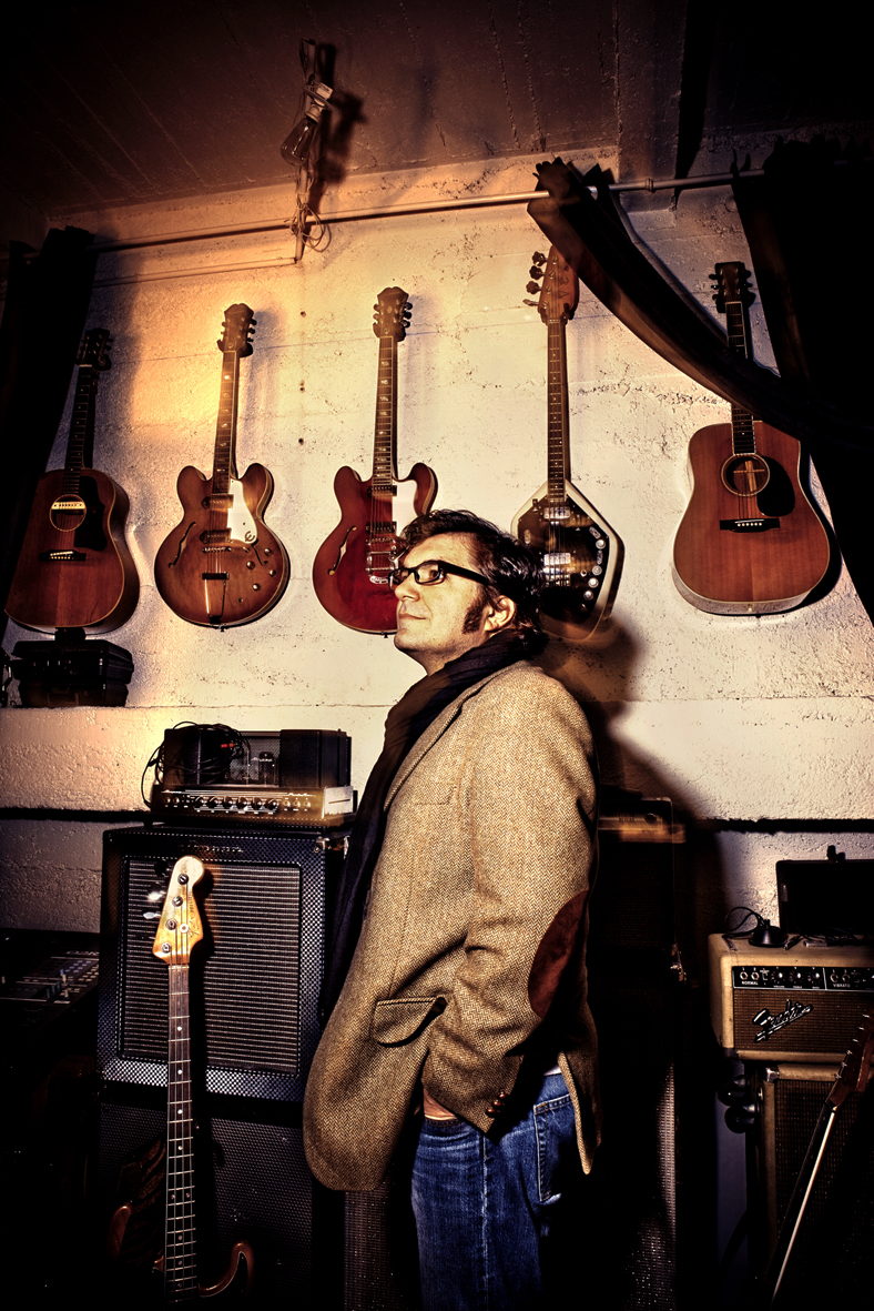 Fred Pallem - CLARK magazine